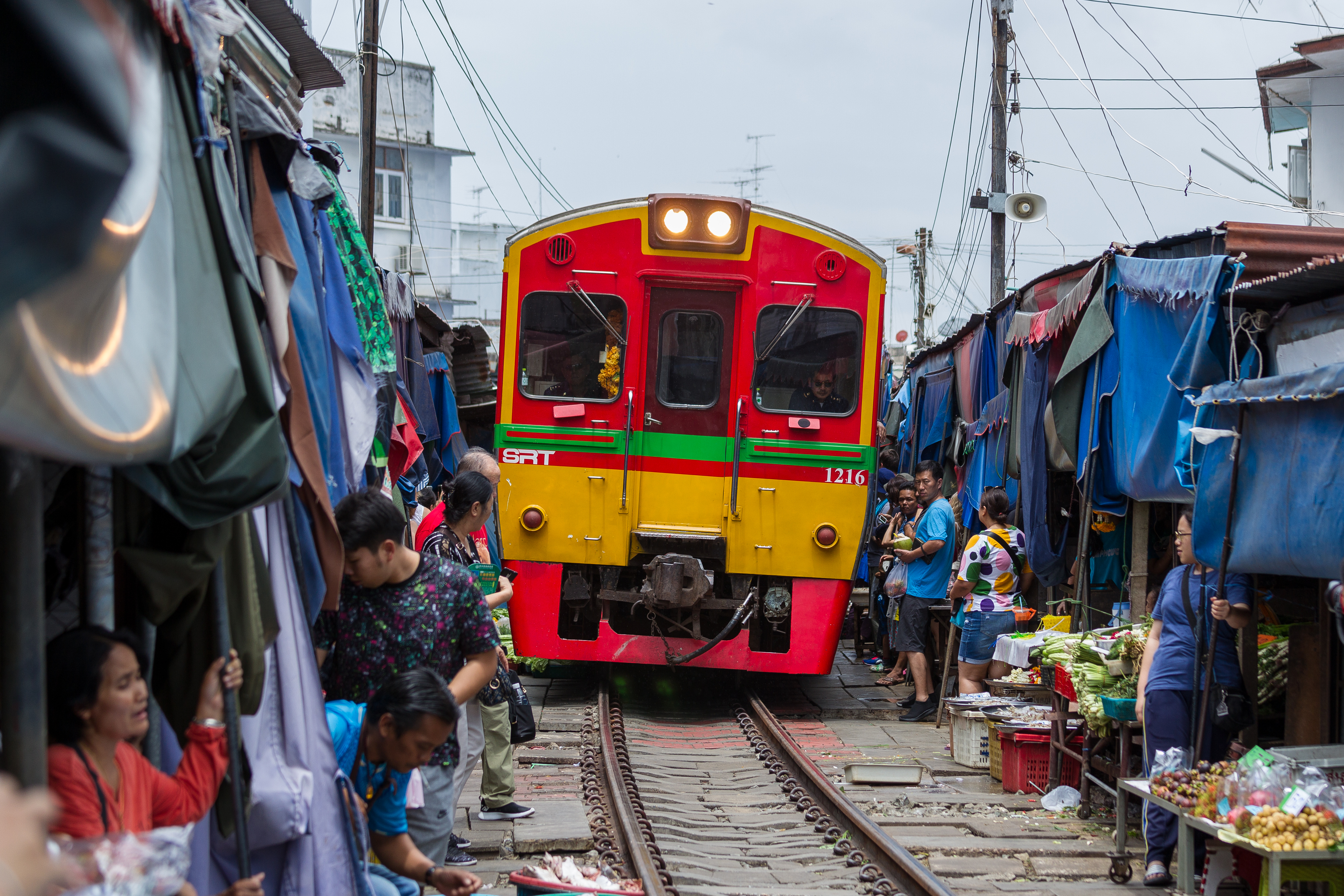 Talad Rom Hoop or Maeklong Railway Market, Samut Songkhram, Thailand.